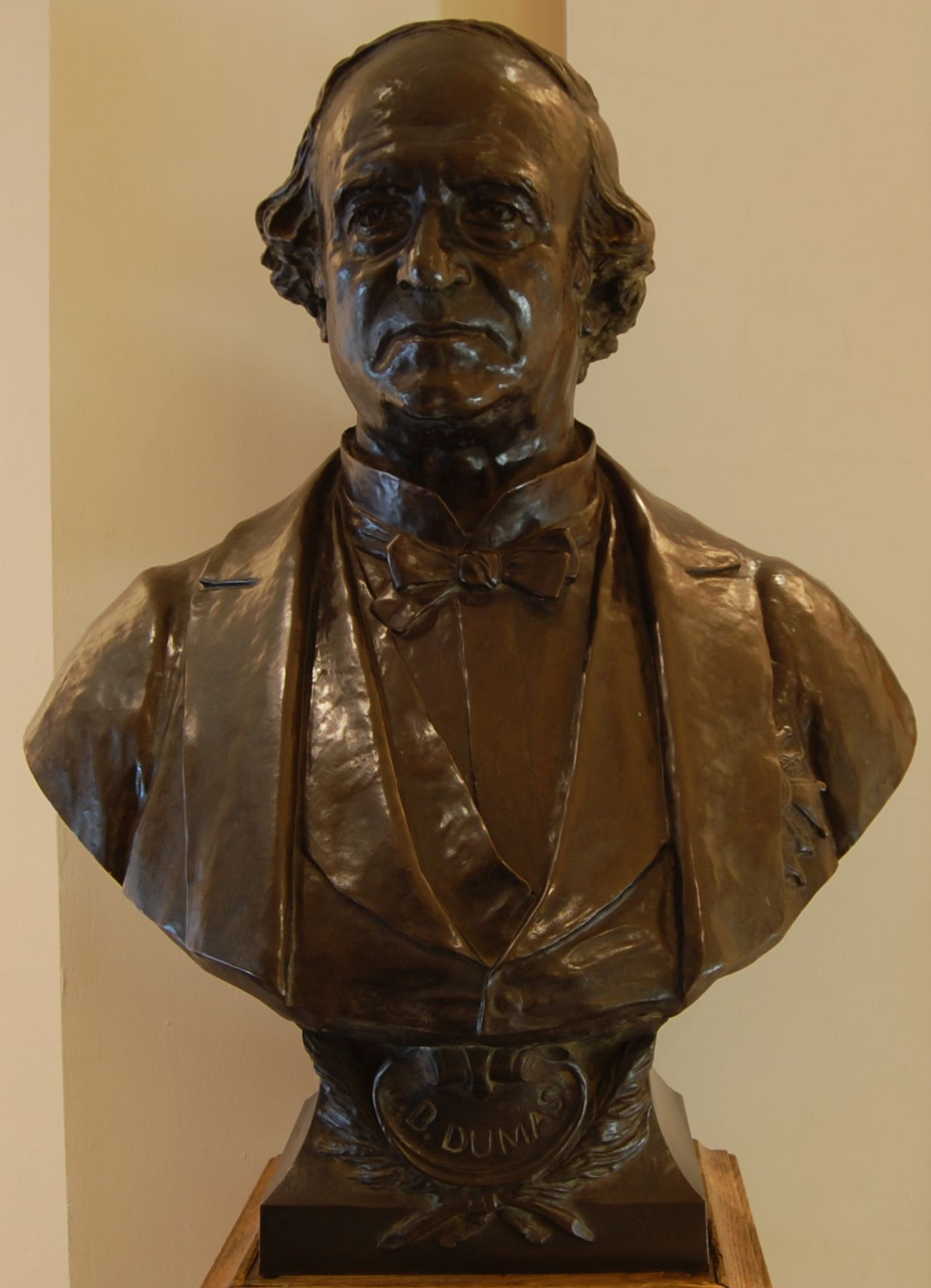 Bust of the chemist Jean-Baptiste Dumas, by Jean-Baptiste Claude Eugène Guillaume, in the collection of the Royal Society of Chemistry, at it's Burlington House, London, headquarters.